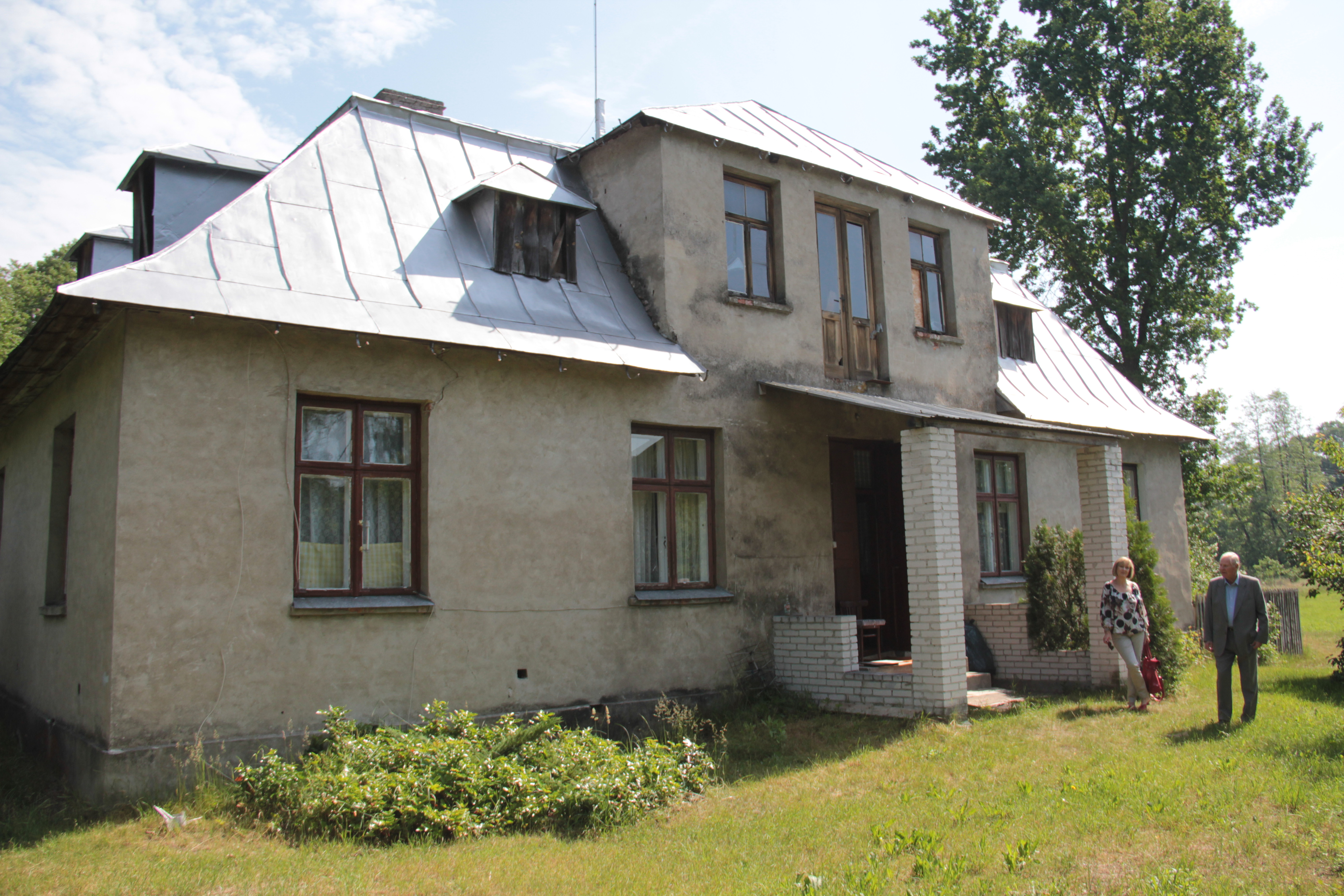 Family house of famous composer Bolesław Szabelski in Sadowne